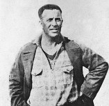 Image that can be said to be a historical picture. 1930 World Cup-winning Uruguay coach Alberto Suppici.